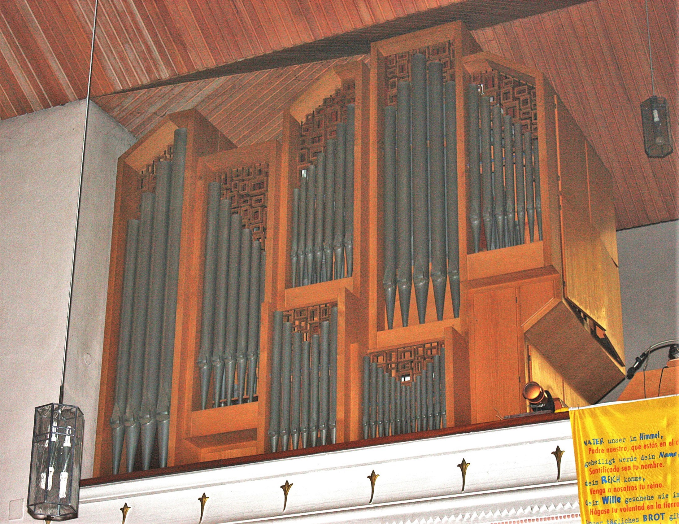 Bubach (Eppelborn), church St. Laurentius, the organ